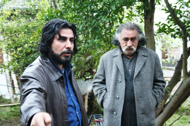 Behind the Scenes series, empty frames Photo: Sara ardebili